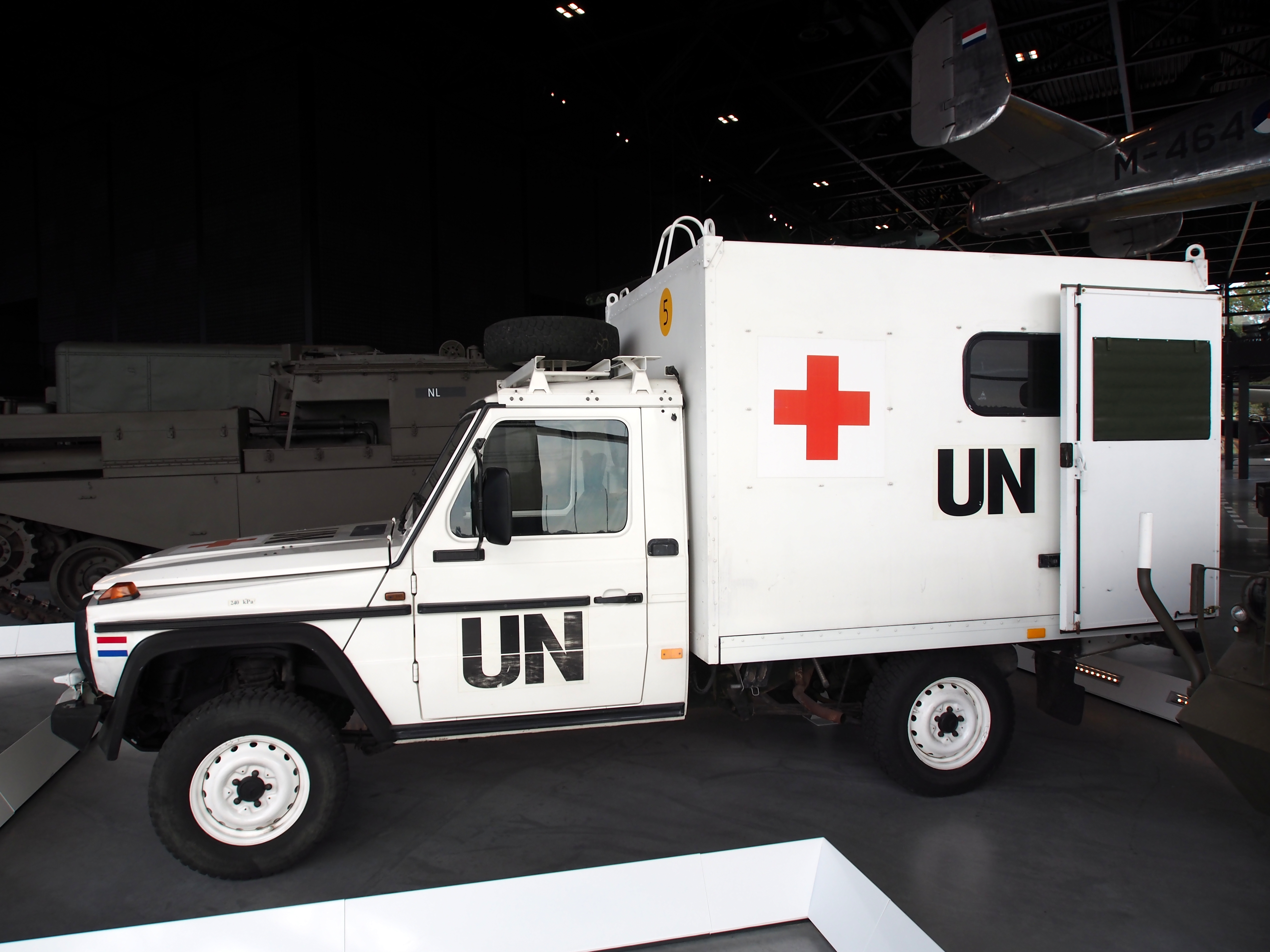 Photographed at the Nationaal Militair Museum, Soesterberg.